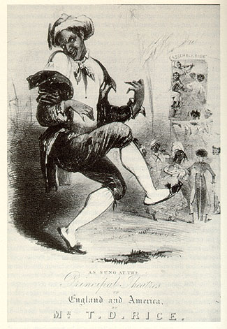 td rice as jim crow